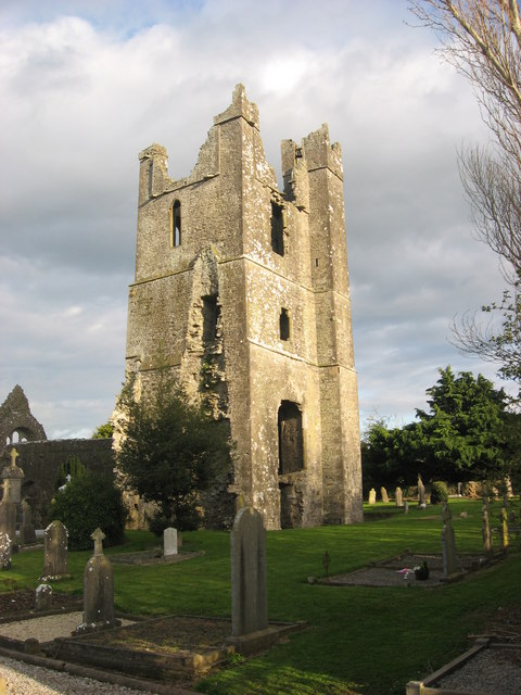 Tower of St. Mary's Church, Duleek The 15th-century tower and part of the south aisle are all that remain of the Church of St. Mary, a priory of the Augustinian canons founded by Hugh de Lacy in 1182. The tapering scar on the near side of the tower marks the location of a vanished round tower of the Early Christian period.